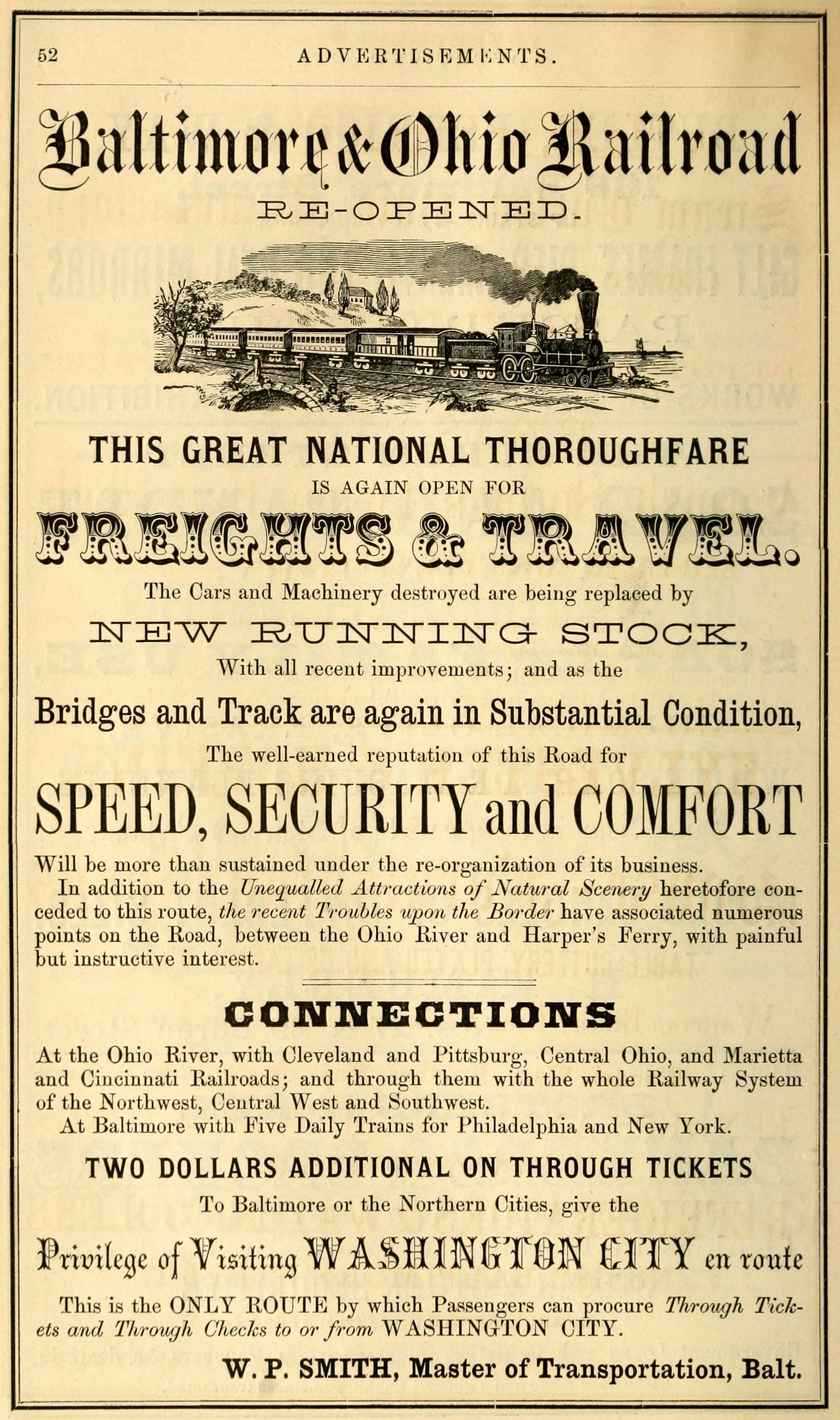 Advertisement for the Baltimore and Ohio Railroad from 1864, noting its reorganization and repair from damage during the American Civil War (still ongoing at the time of this ad.) (cropped and lightened)